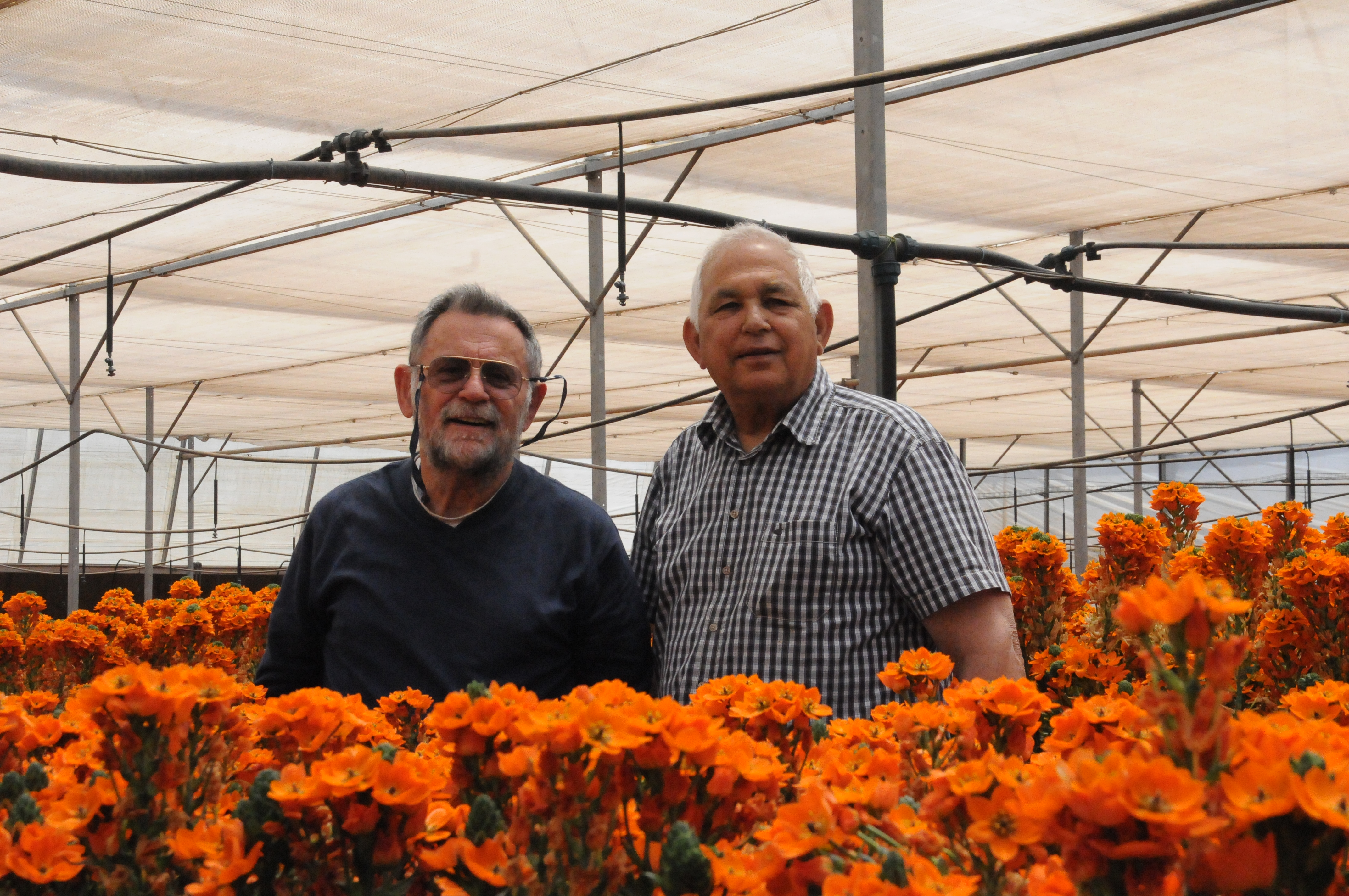 Agriculture in Israel